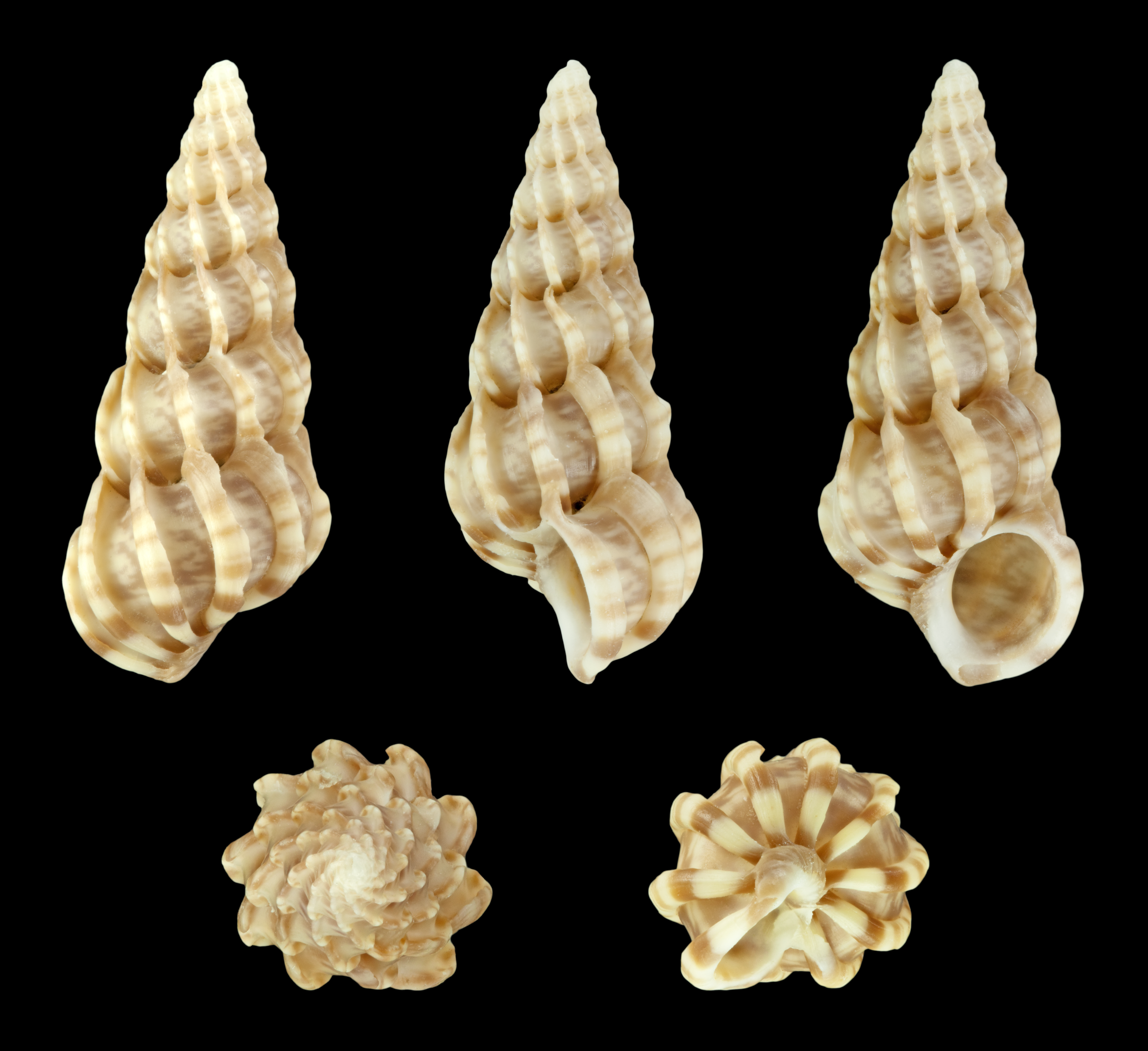 Epitonium clathrus mediterraneum (Kobelt, 1887), Common Mediterranean Wentletrap; Length 1.2 cm; Originating from Port Leucate, France; Shell of own collection, therefore not geocoded.